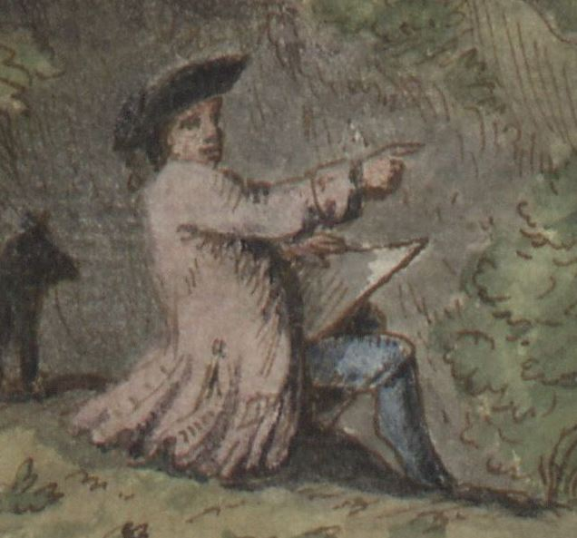 Detail of a drawing by Hendrik van Wel (c. 23 x 17 cm) from the album Forty-six landscape drawings of Netherlandish towns and villages Royal Library of Belgium Native nameFrench: Bibliothèque Royale